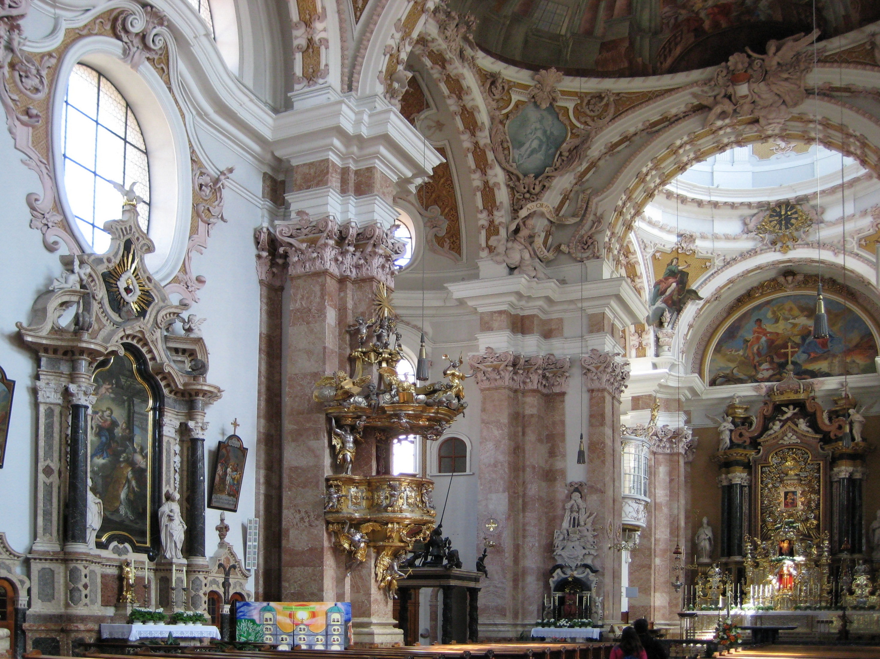 Cathedral St. Jakob in Innsbruck, Tyrol